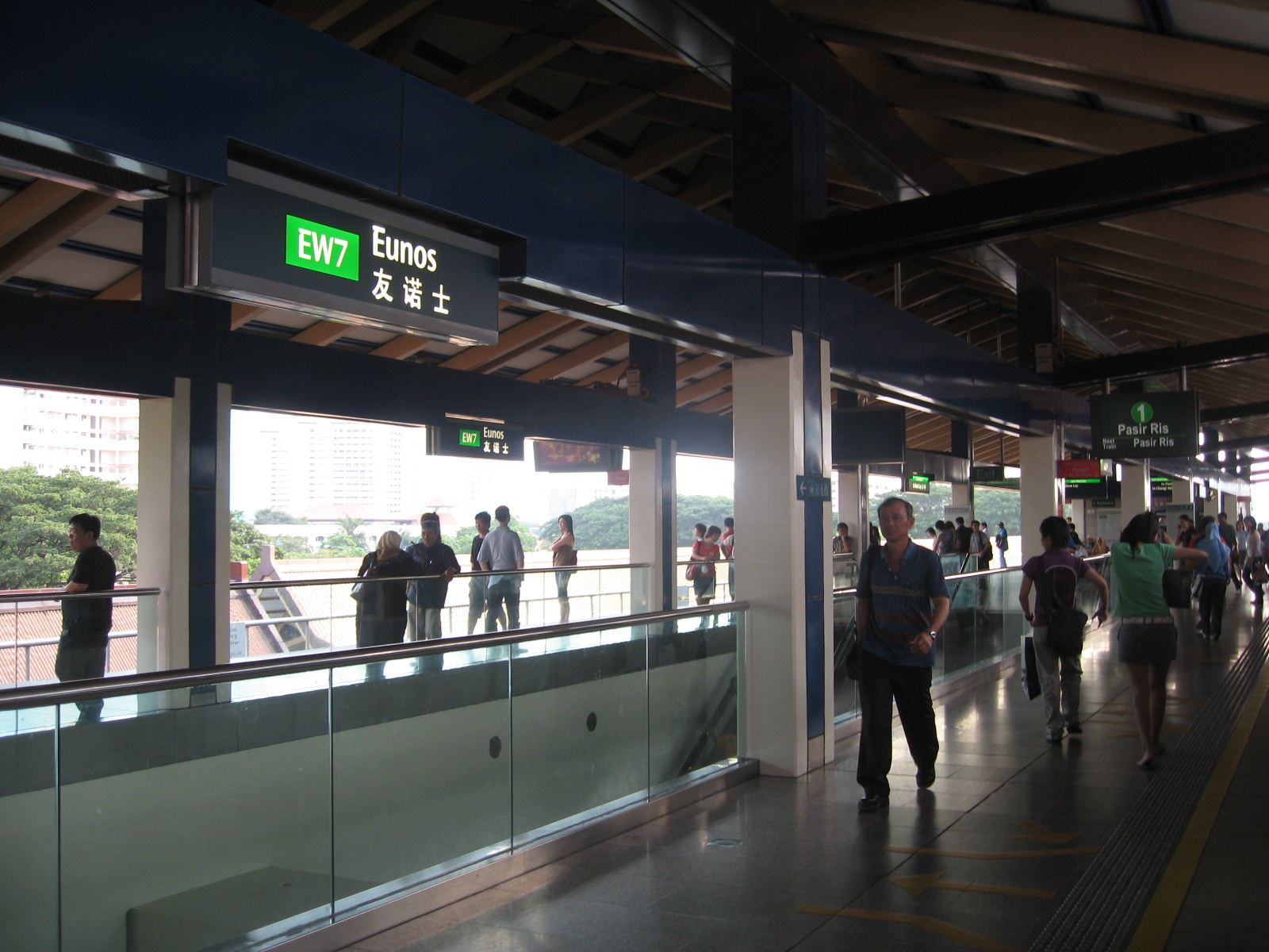 Eunos MRT Station.